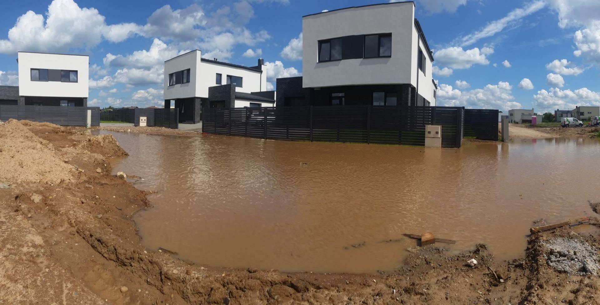 Flooding in Vilnius suburb